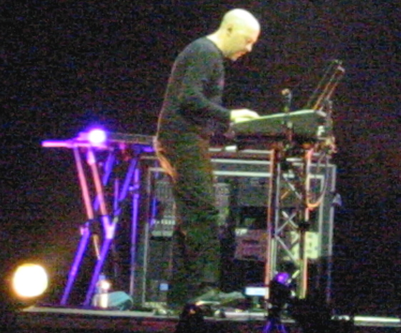 Detail of picture: Dream Theater - Jordan Rudess solo.JPG available con wikimedia commons. It shows artist Jordan Rudess performing in Rome on February 2004